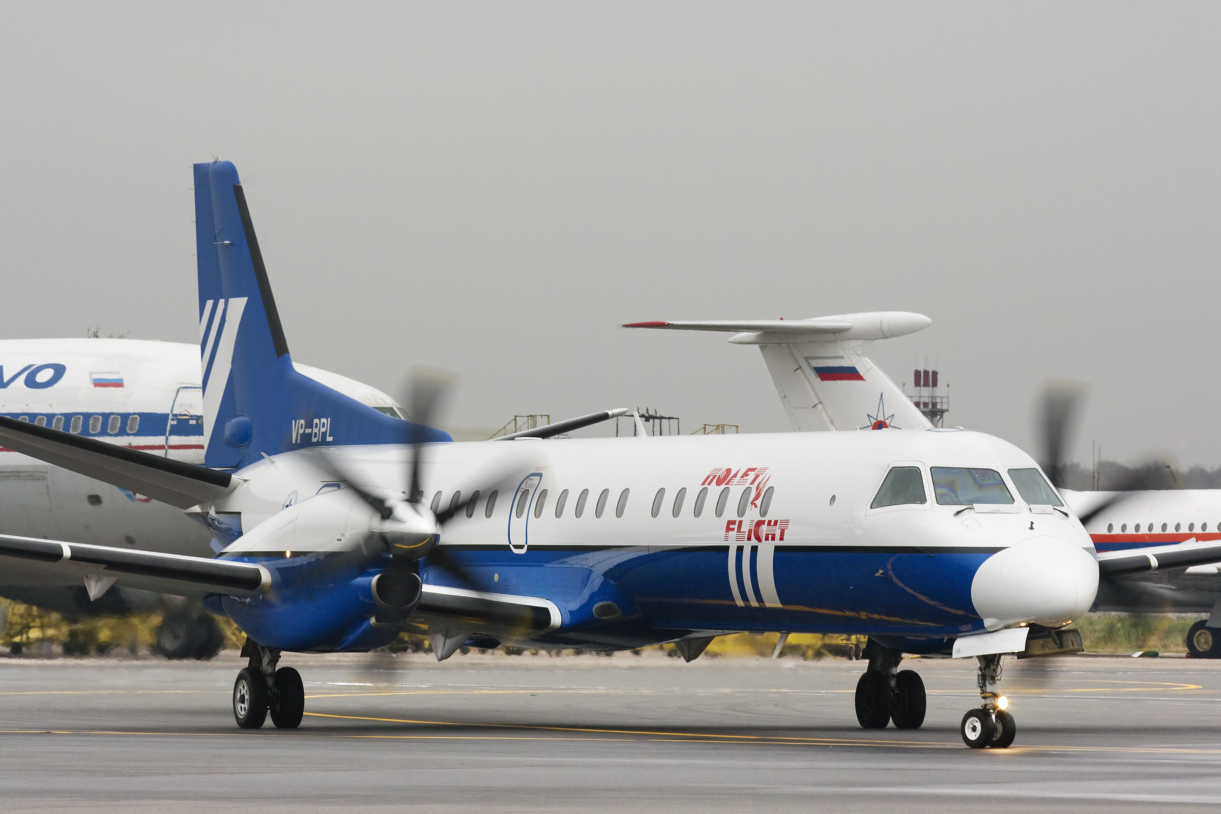 Saab 2000 of Polet aviacompany, Domodedovo airport